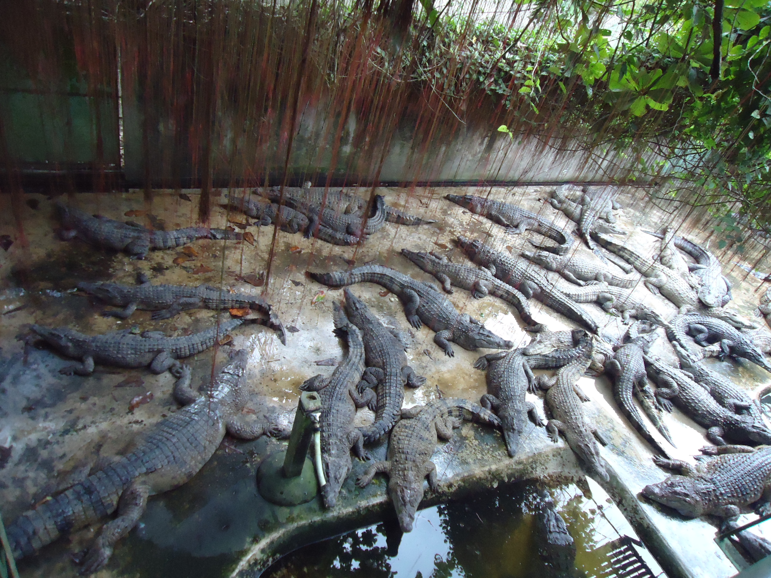 Crocodiles in the Crocodile Farm, Palawan Island, Philippines.